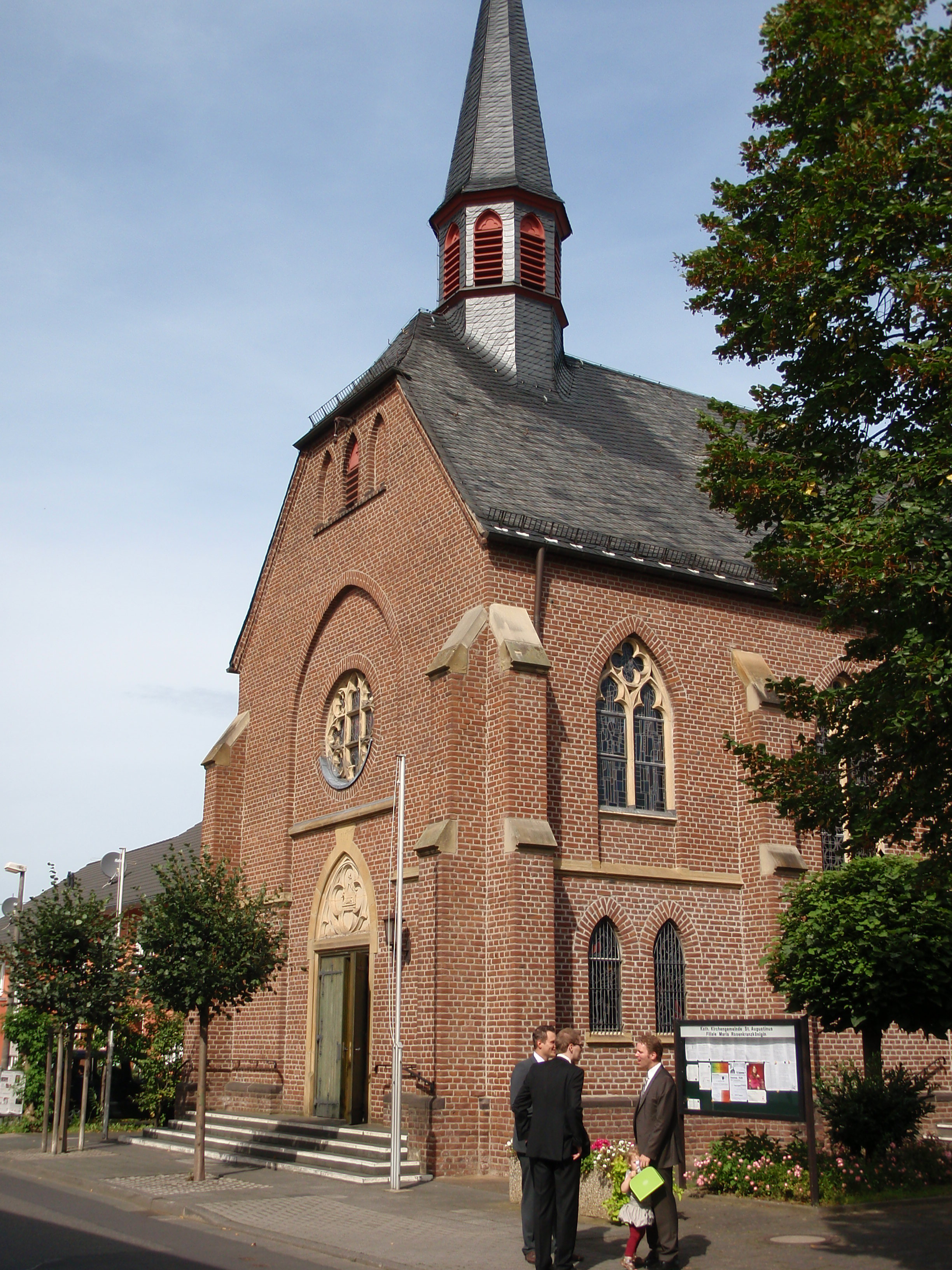 Catholic chapel of ease St. Maria Rosenkranzkönigin in Sankt Augustin, Germany.